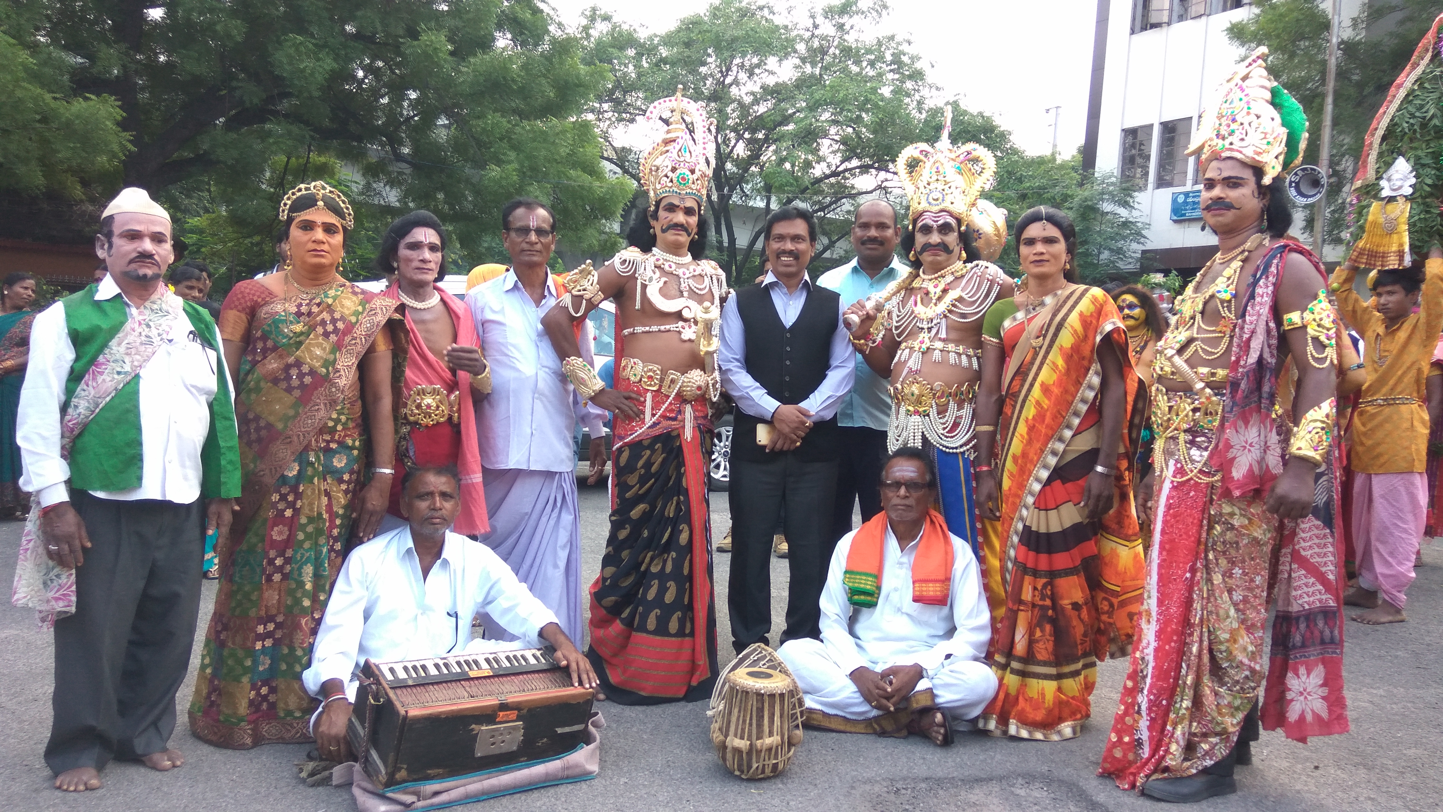 Gotrala Bagotham Kolatam Folk Artistes with director Mamidi Harikrishna garu in Janapada Jathara (2018) Closing Ceremony on 31st August 2018 in Ravindra Bharathi, Hyderabad organised by Department of Language and Culture, Telangana Government